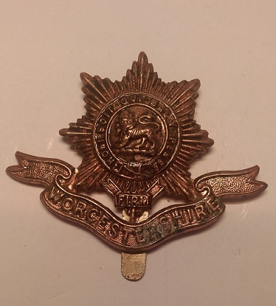 Photo of Worcestershire Regiment Cap Badge from personal collection